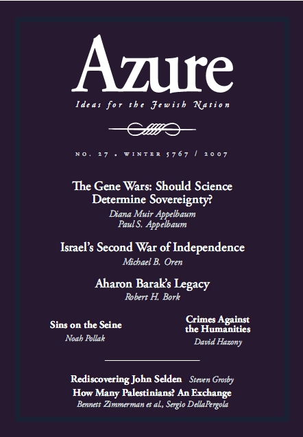 Cover image of Azure 27